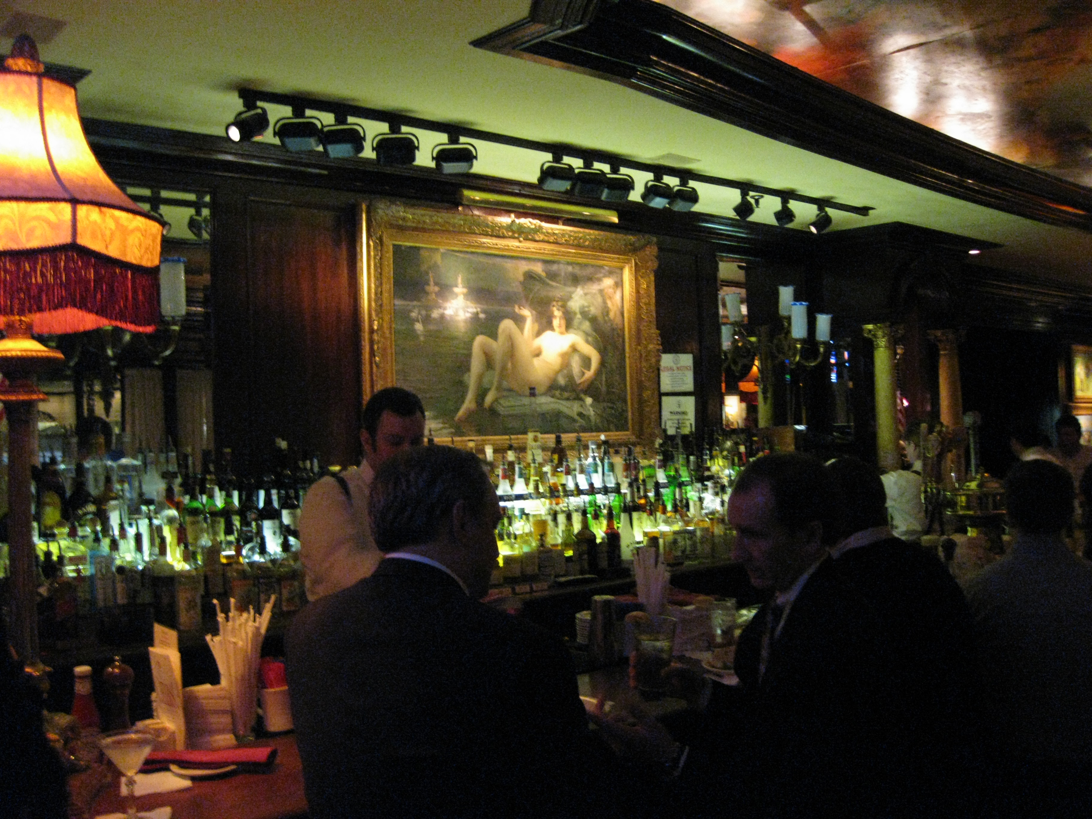 A view of Grant's Bar in the Old Ebbitt Grill restaurant in Washington, D.C., in the United States. The oil painting above the bar was painted by Jean-Paul Gervais in 1900.